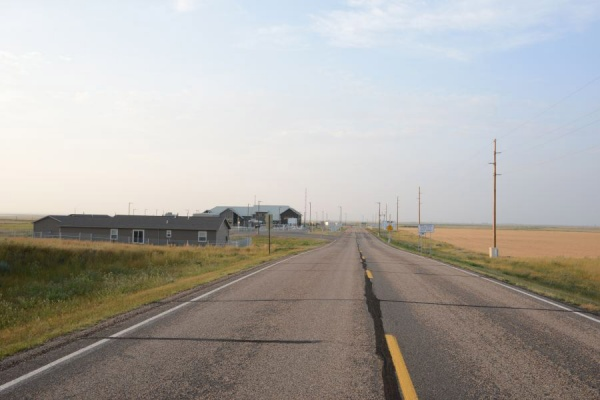 Approaching the Wild Horse Montana border station from the south